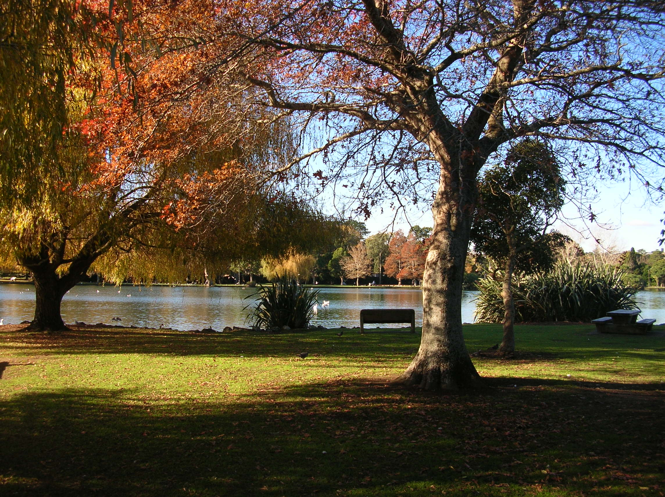 Western Springs, a park in the eponymous suburb of Auckland, NZ.